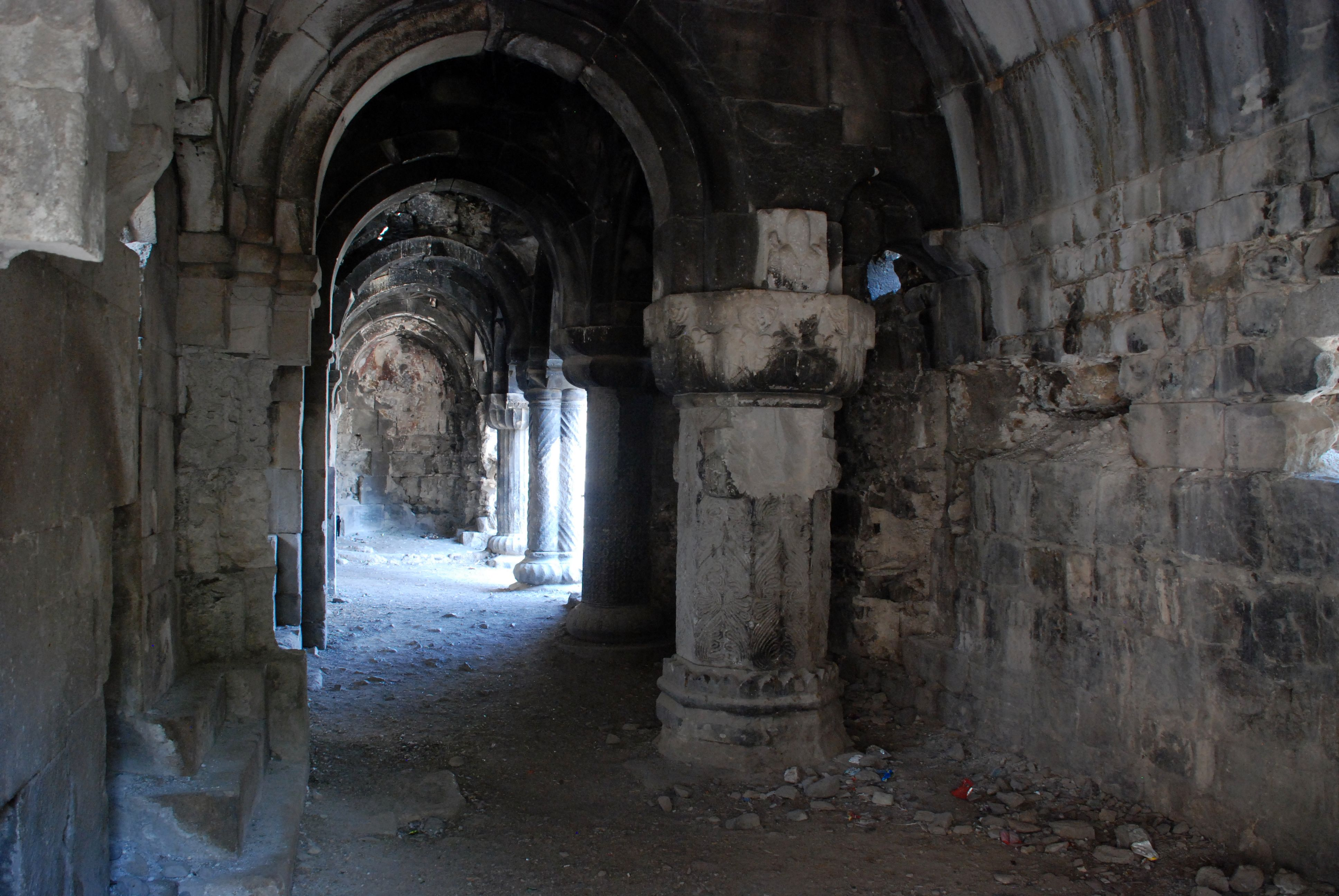 Öşk Vank (Oshki), Erzurum province, southern annex, from west